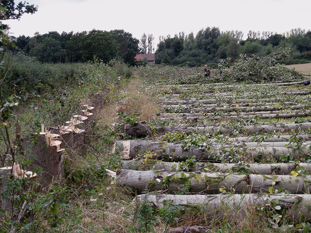 "All felled, felled, are all felled" "Binsey Poplars" by Gerard Manley Hopkins contains this line and is a lament for trees felled near Oxford. These 130 poplars grew near East Bergholt and their felling may not be mourned. They had to be removed because several had fallen across the nearby road in recent times and also it is felt that they were not in keeping with the native trees in this area of natural beauty.